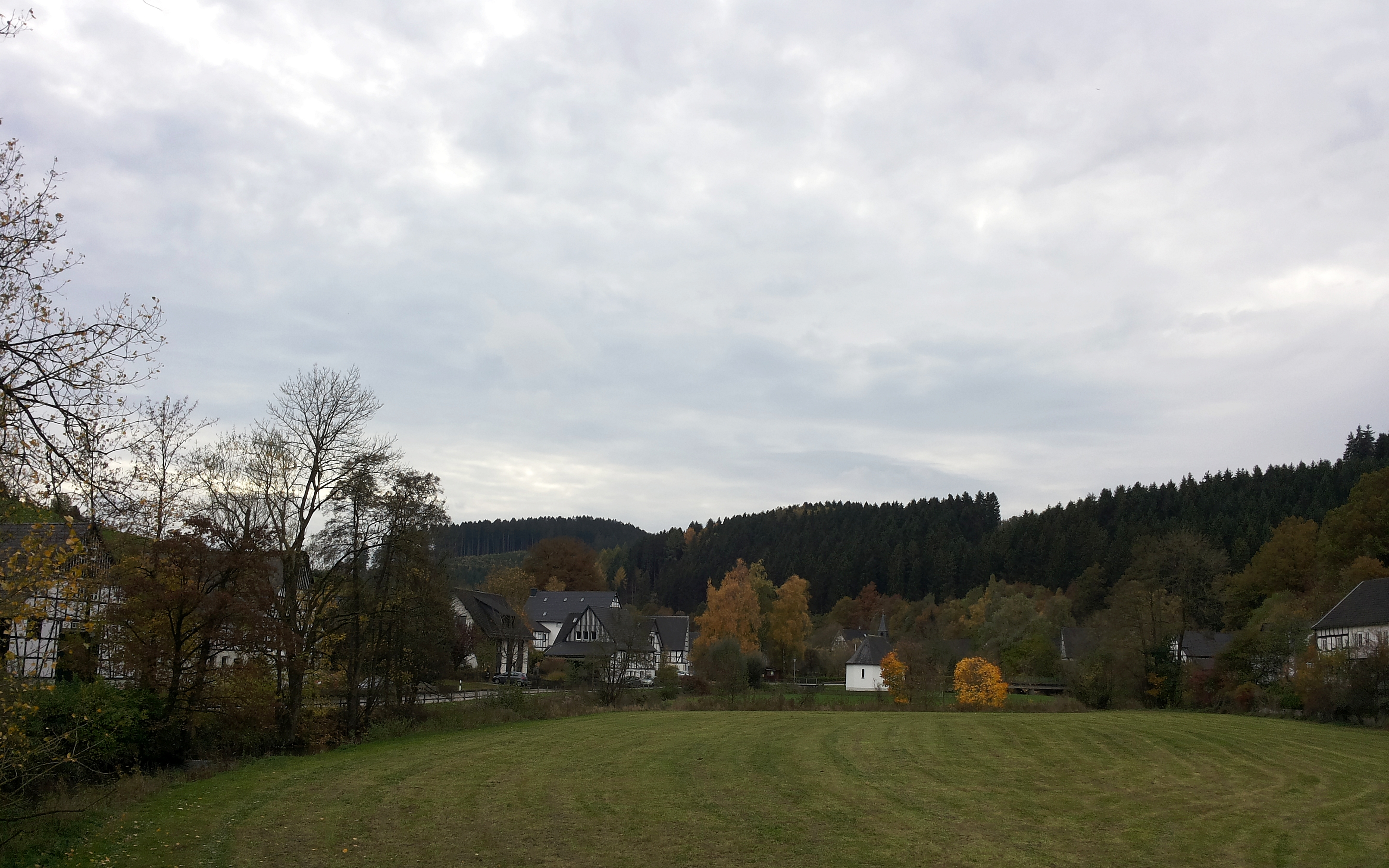 Eslohe-Sallinghausen (Germany)